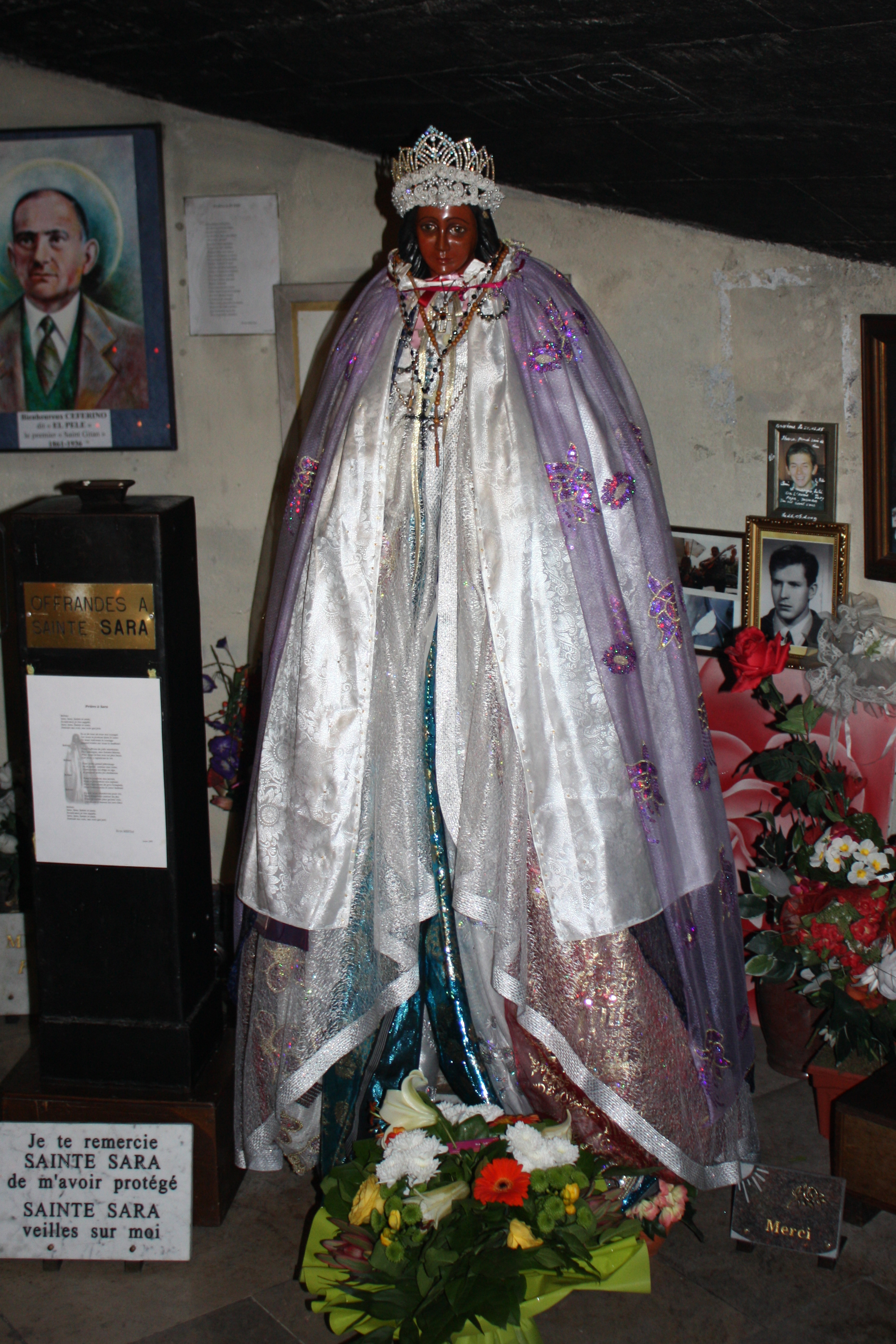 Saint Sara coated with the dress of the gathering of 2007.